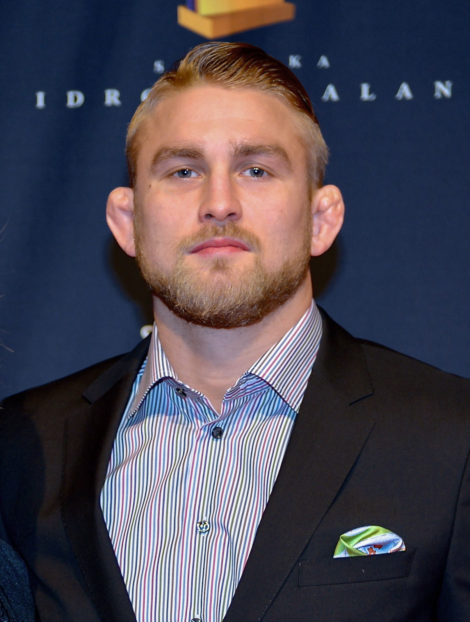 Alexander "The Mauler" Gustafsson at the Swedish Sports Gala at the Ericsson Globe in Stockholm on 13 January 2014.